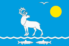 Flag of Malozemelsky selsovet, Nenetsia, Russia